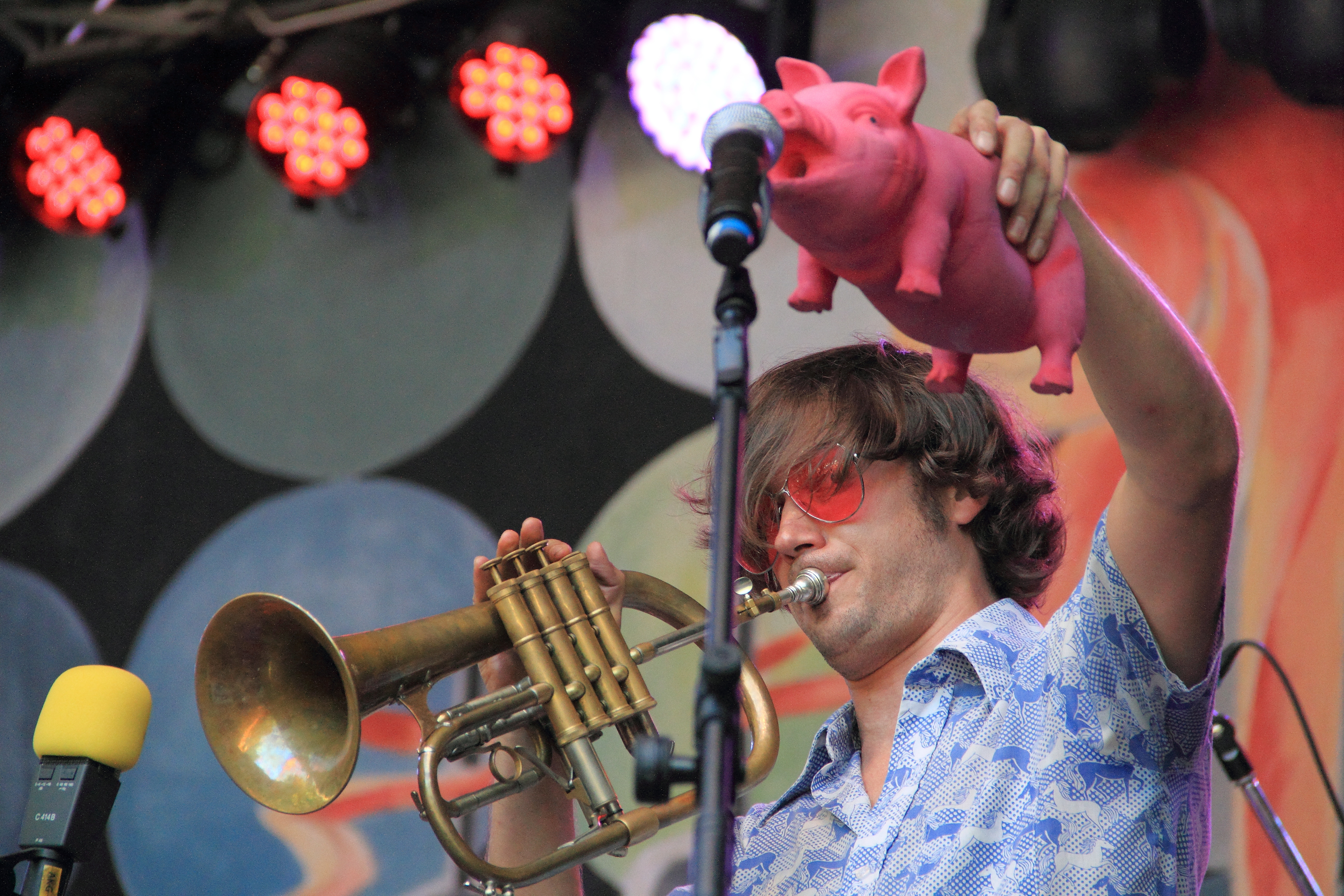 Matthias Schriefl and his orchestra performing on the concert stage in Heinepark at Rudolstadt-Festival 2016.